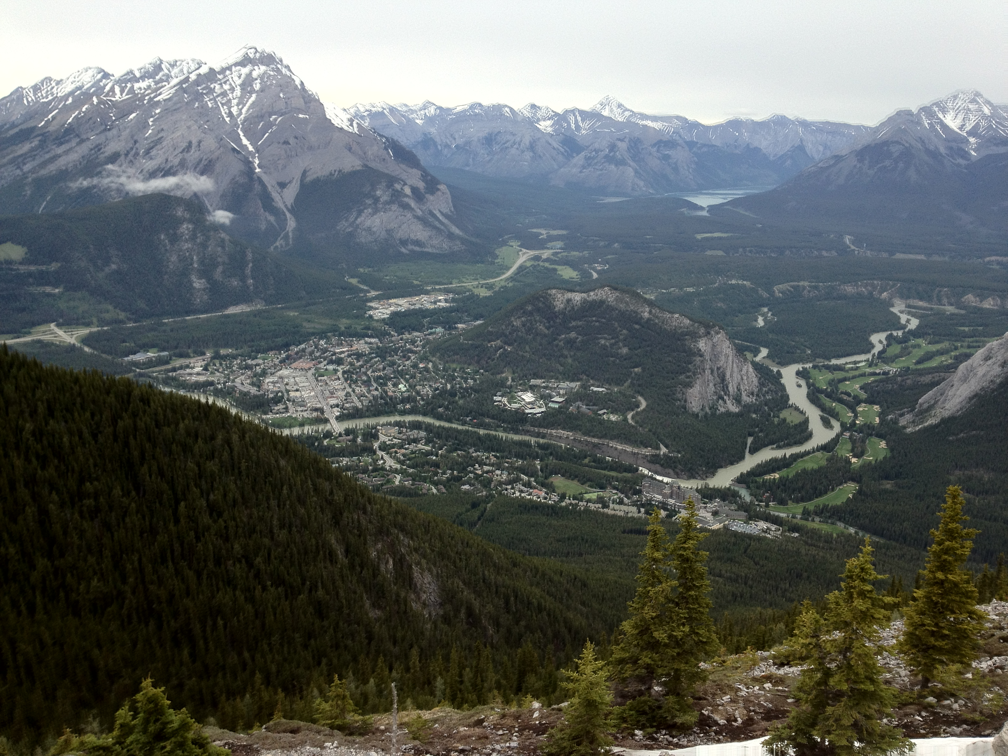 Overlook of Banff, Alberta and its surroundings. Taken from the Banff gandola.